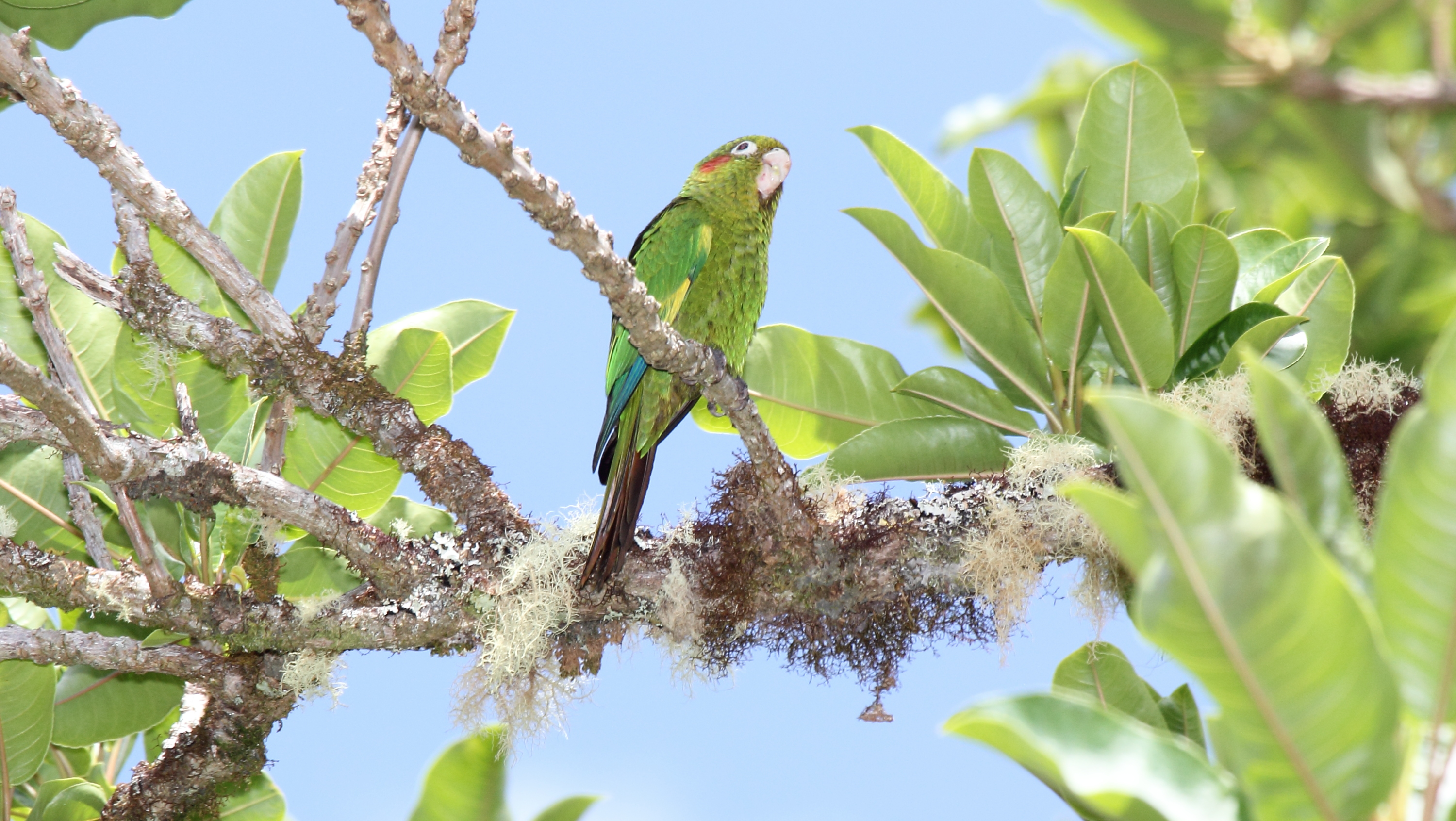 A Sulphur-winged Parakeet at Savegre, Costa Rica.